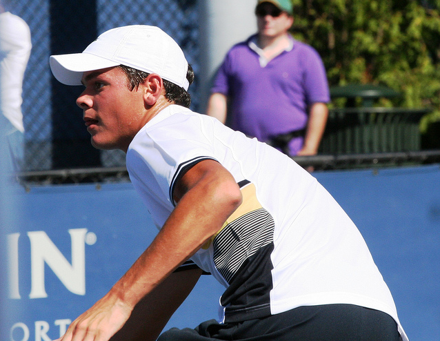 Milos Raonic at the 2010 US Open